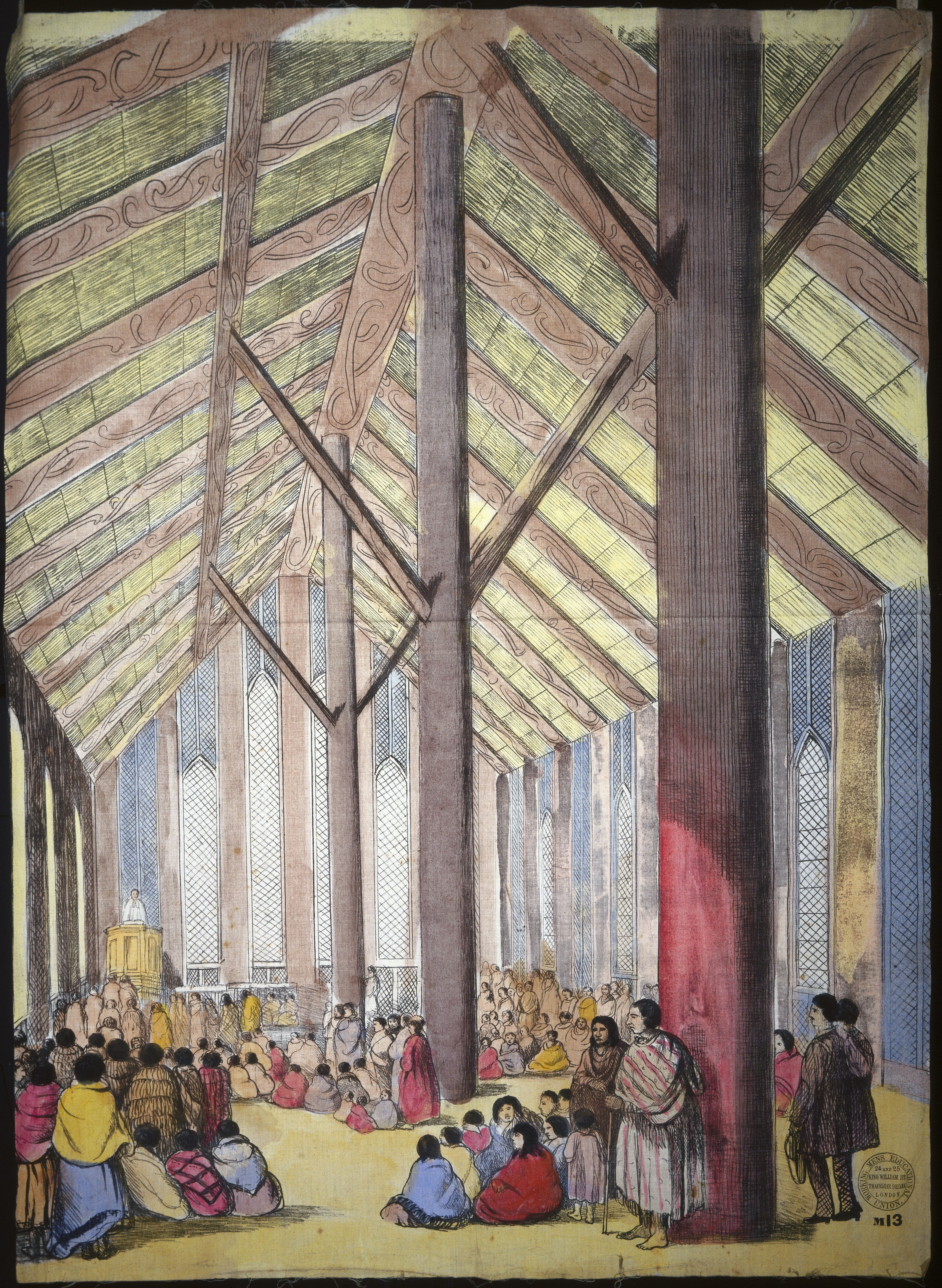 Interior of Rangiātea Church, a hand-coloured print on calico by ? copied from the original hand-coloured lithograph by R K Thomas —see a copy of Thomas's work in Te Papa hereof a picture by Charles Decimus BarraudInterior of Rangiātea Church in Otaki by Barraud in circa 1851.